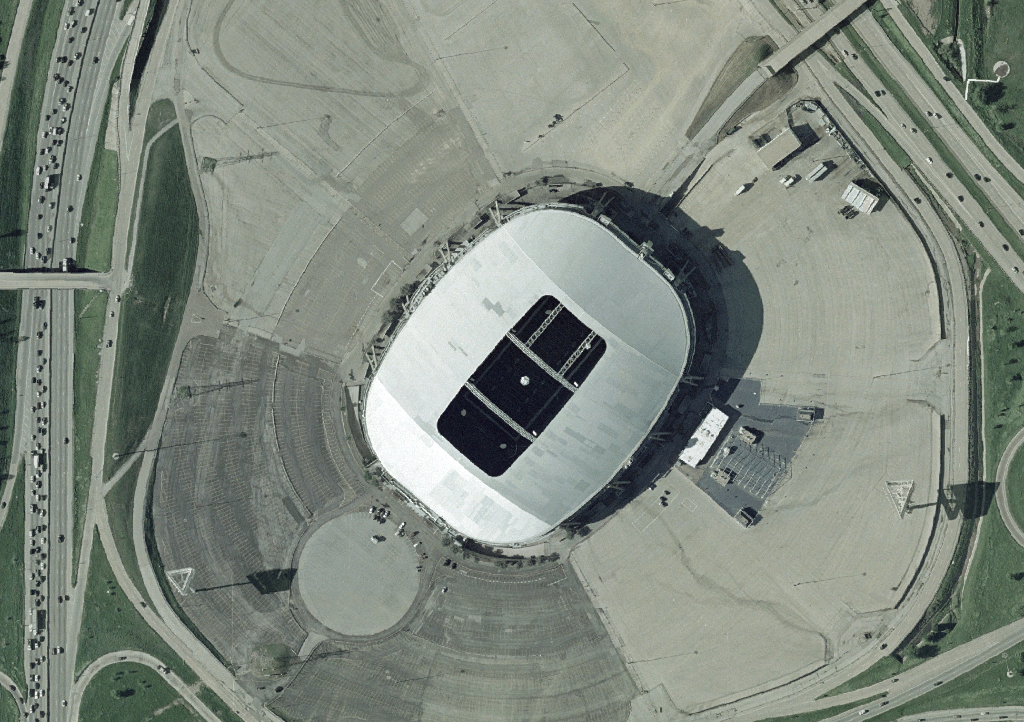 30 août 2006 à 13:31 . . Betp . . 1024×722 (1 449 852 octets) (nasa world wind 1.3.5 ==Licence== Domaine public NASA )